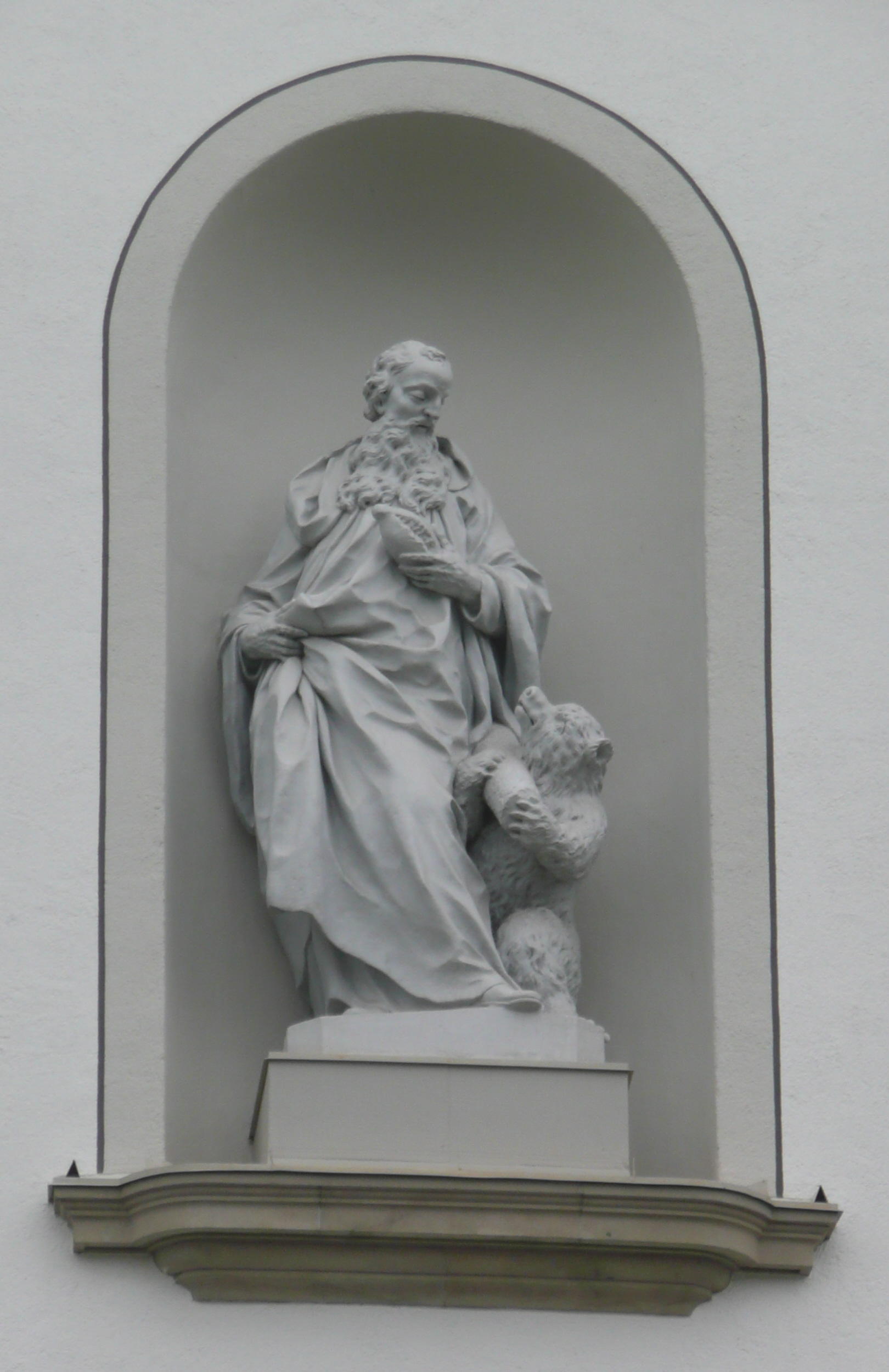 Statue of Saint Gall on the Wall of the Abbey of St. Gall